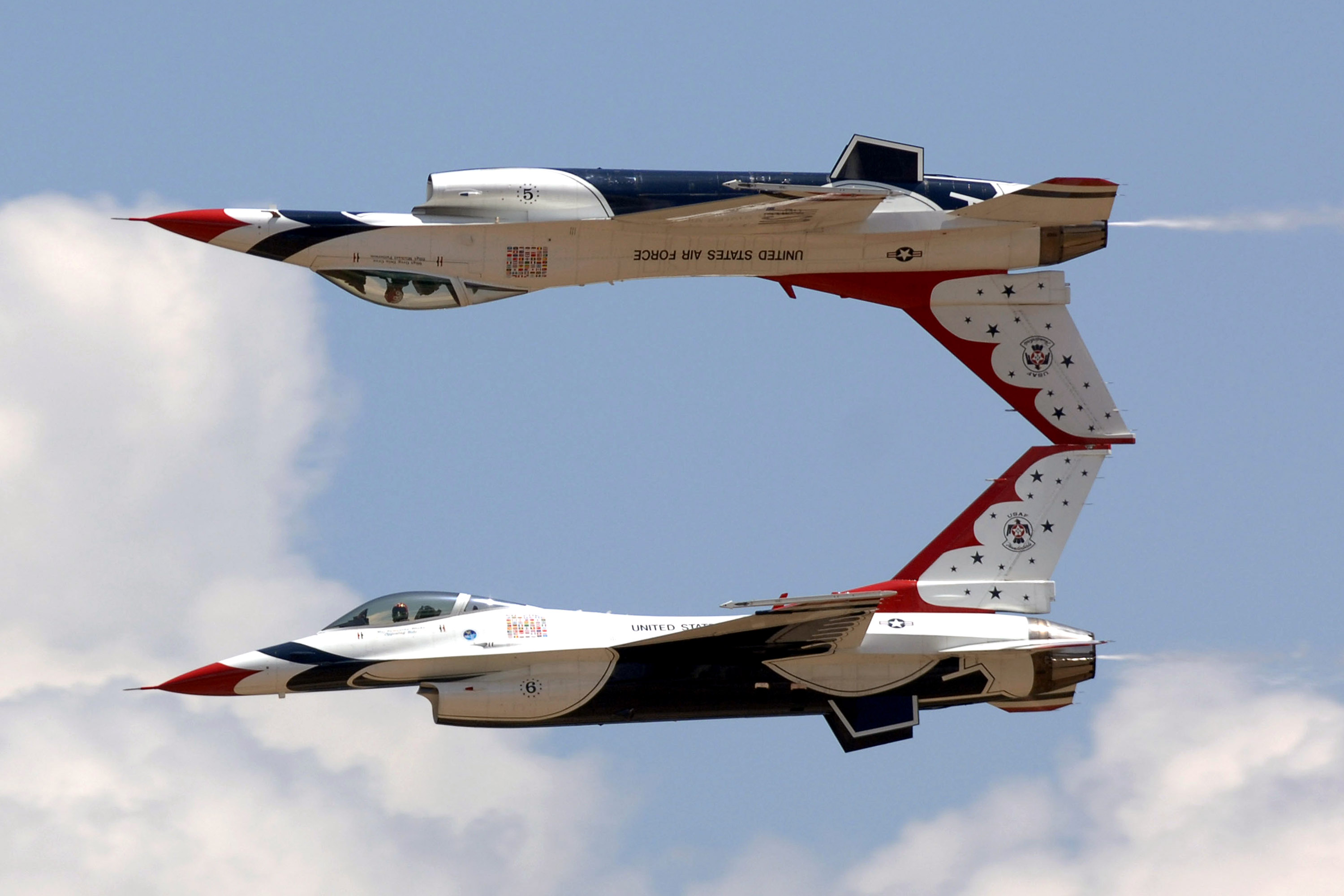 The U.S. Air Force Thunderbirds perform an airshow after the 2007 U.S. Air Force Academy Graduation Ceremony May 30 in Colorado. The ceremony marks the culmination of four years at the academy and their transition from cadet to the Air Force's newest second lieutenants.